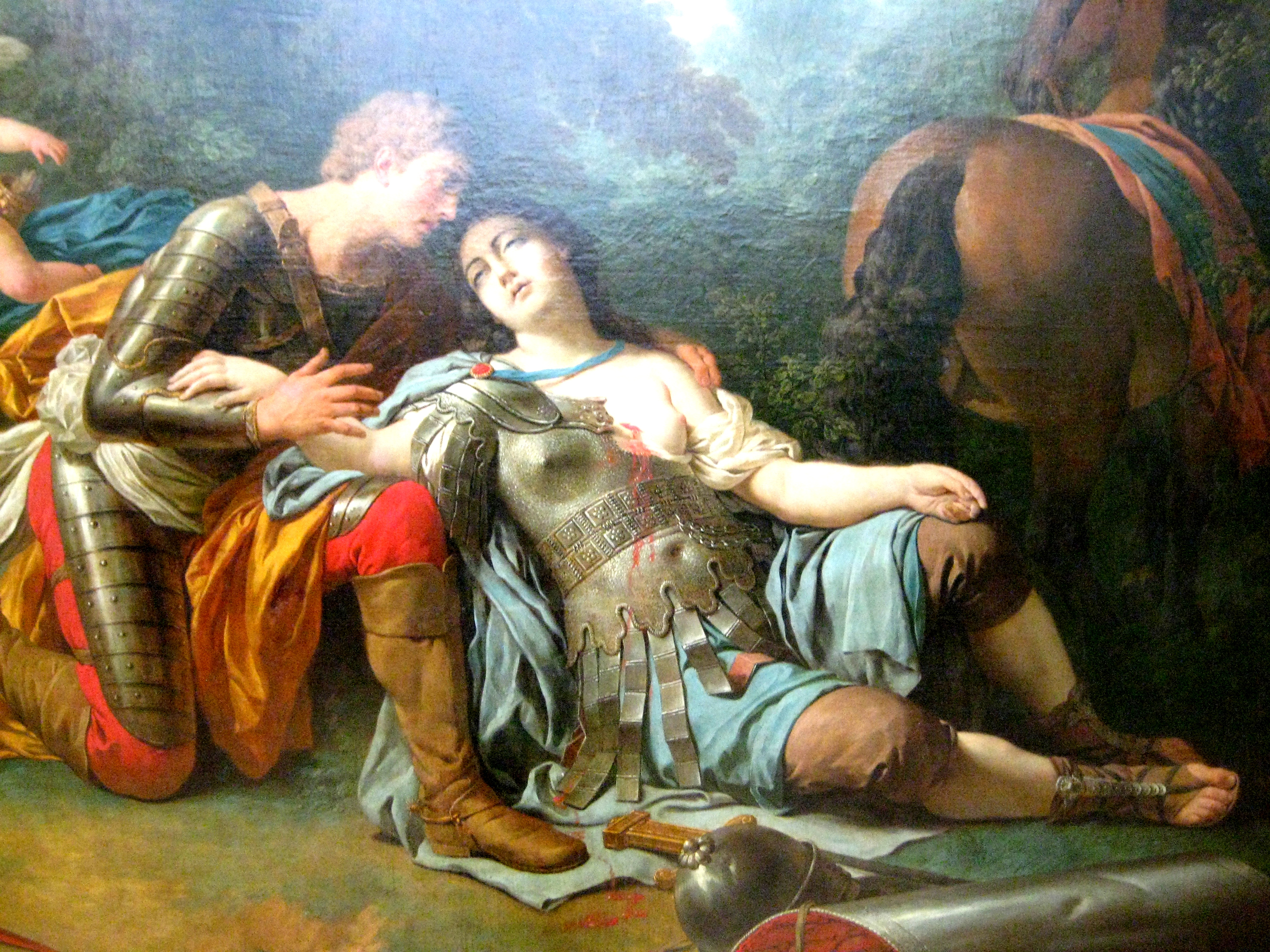 Tancred and Clorinda